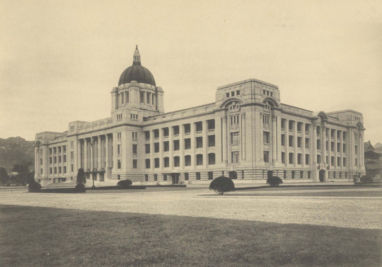 Former Japanese colonial Korean Government-General Office, at Gyeongbokgung